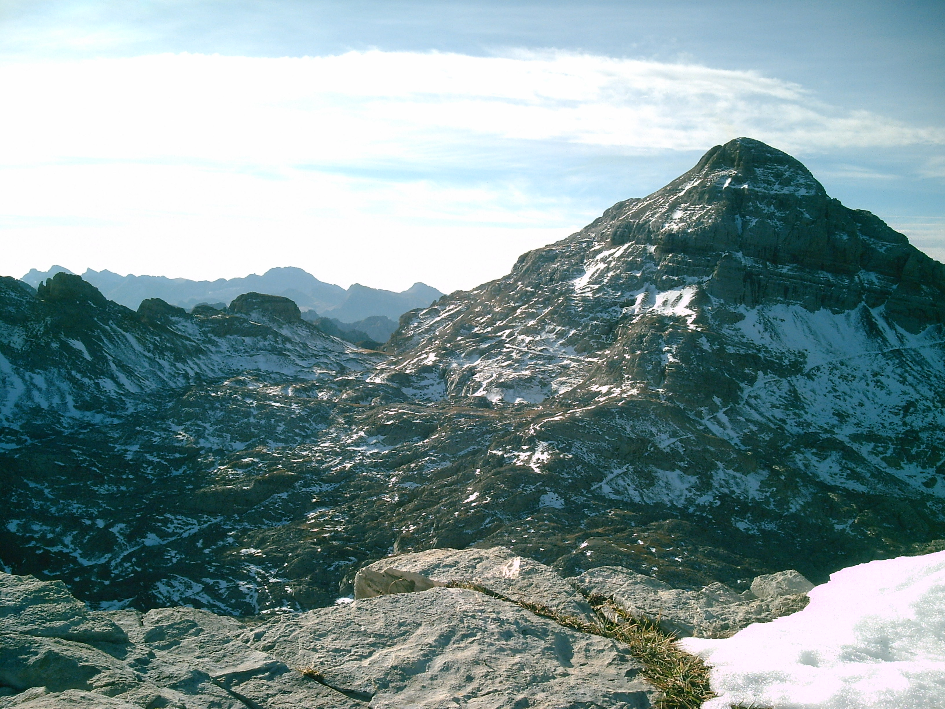 Pic d'Anie from Pic Soum Couy